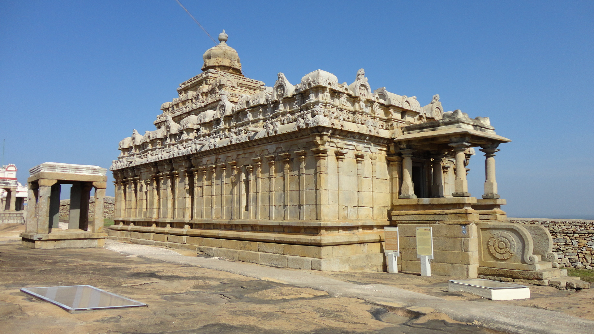 This is the south-eastern view of the Chavundaraya Basti, Sravanabelgola, Hassan, Karnataka. It covers the small shelter for two inscriptions placed towards the south (left) of the temple. The only eastern entrance can also be seen.